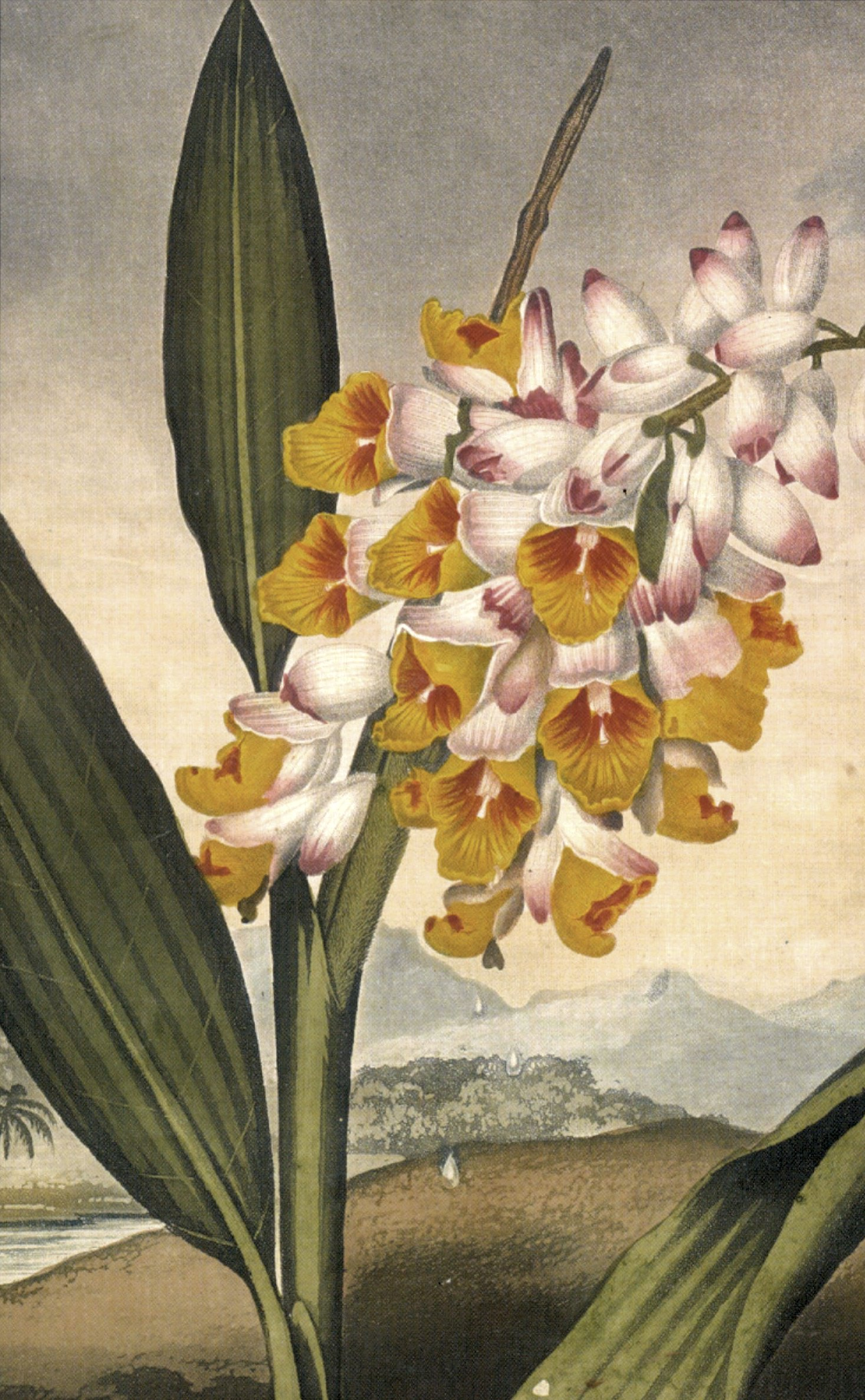 Alpinia zerumbet as syn. Renealmia nutans in Temple of Flora by Robert John Thornton, 1812, Loy McCandless Marks Library